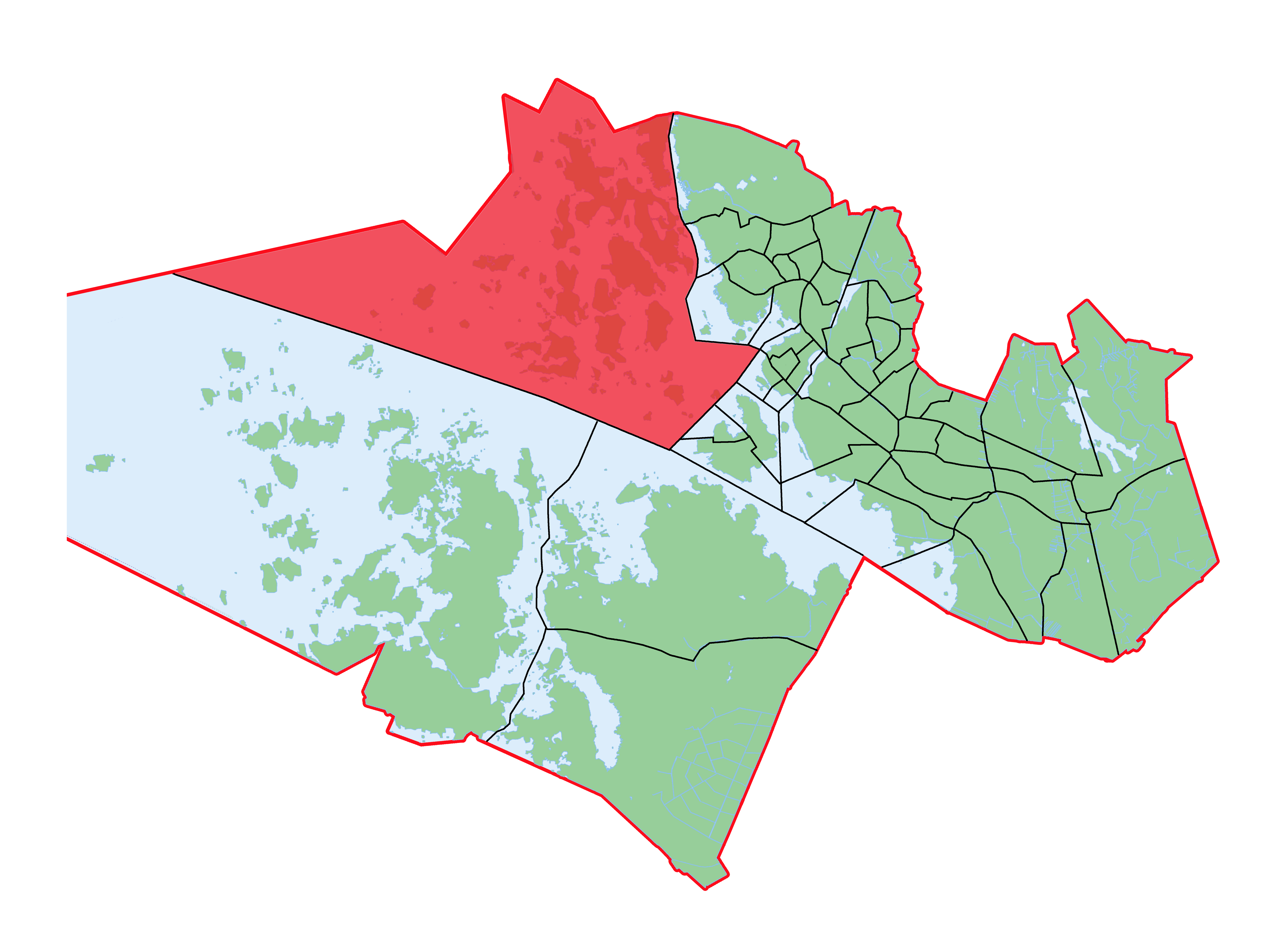 Gerby archipelago, Vaasa